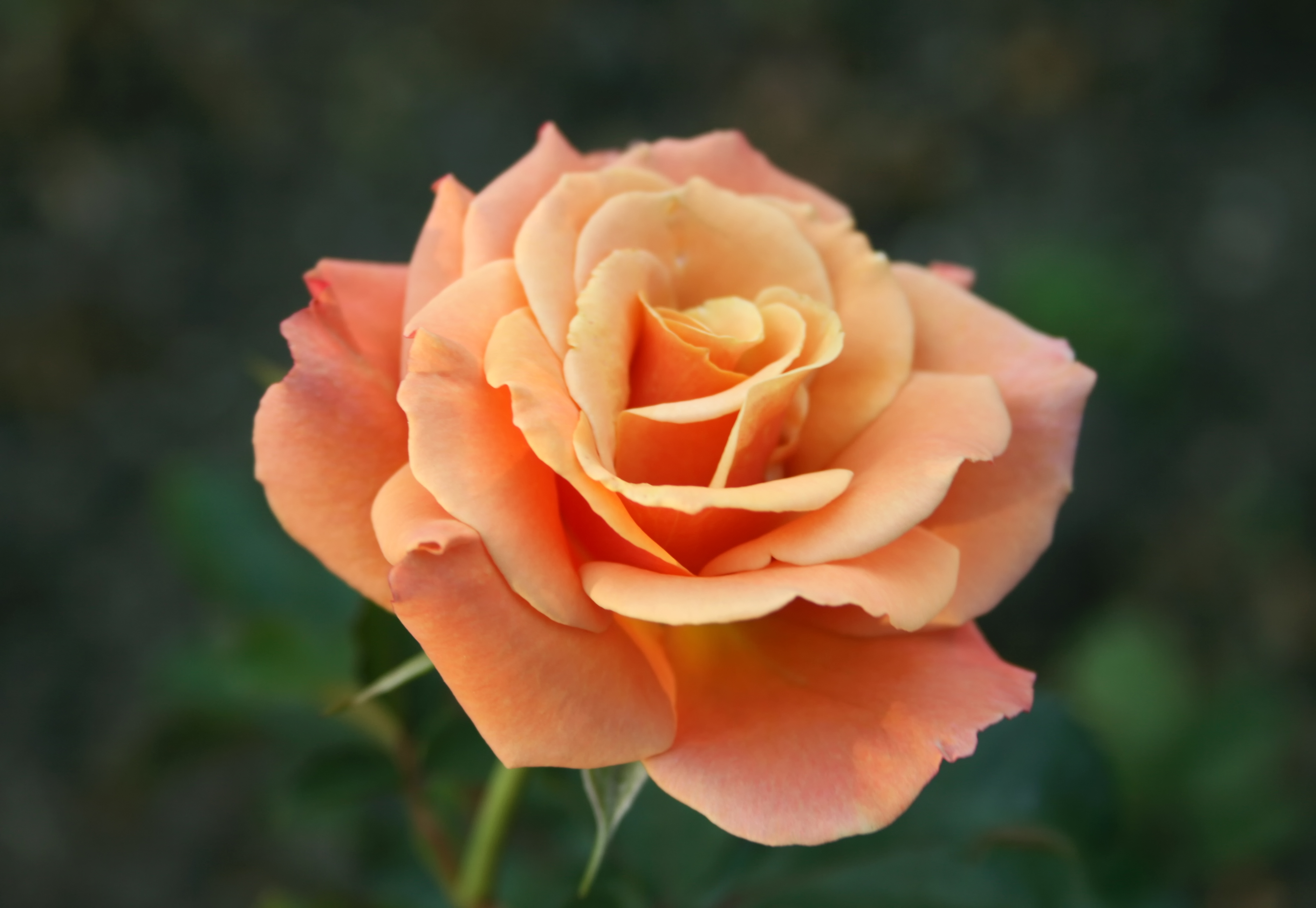 'Singin' in the rain', a floribunda rose. Belongs to Rosa. Garden origin.